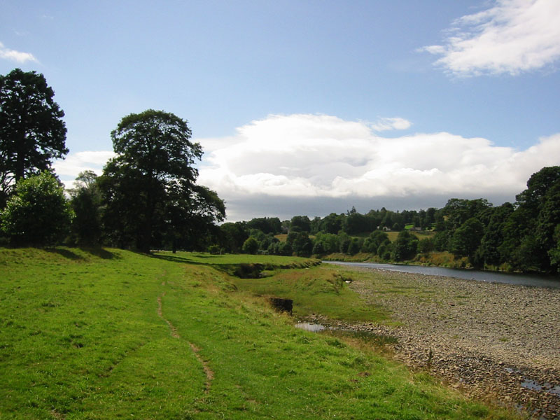 The River Tweed at Abbotsford near Melrose in the Scottish Borders.